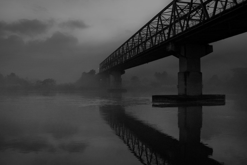 Asia MyanmarBurma Nov 2010Boat trip in the early morning.